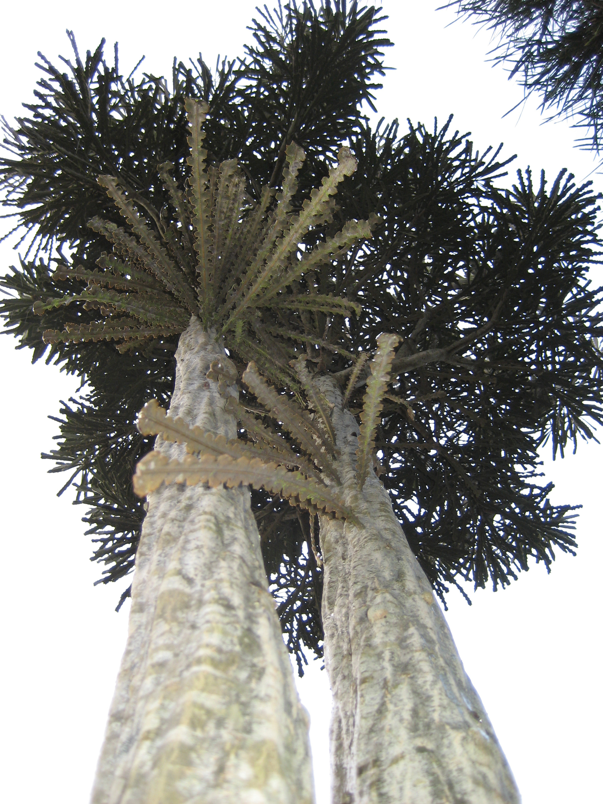 Pseudopanax ferox, 'adolescent' tree - short adult leaves on top, with some long, toothed juvenile leaves remaining below them. Auckland, New Zealand